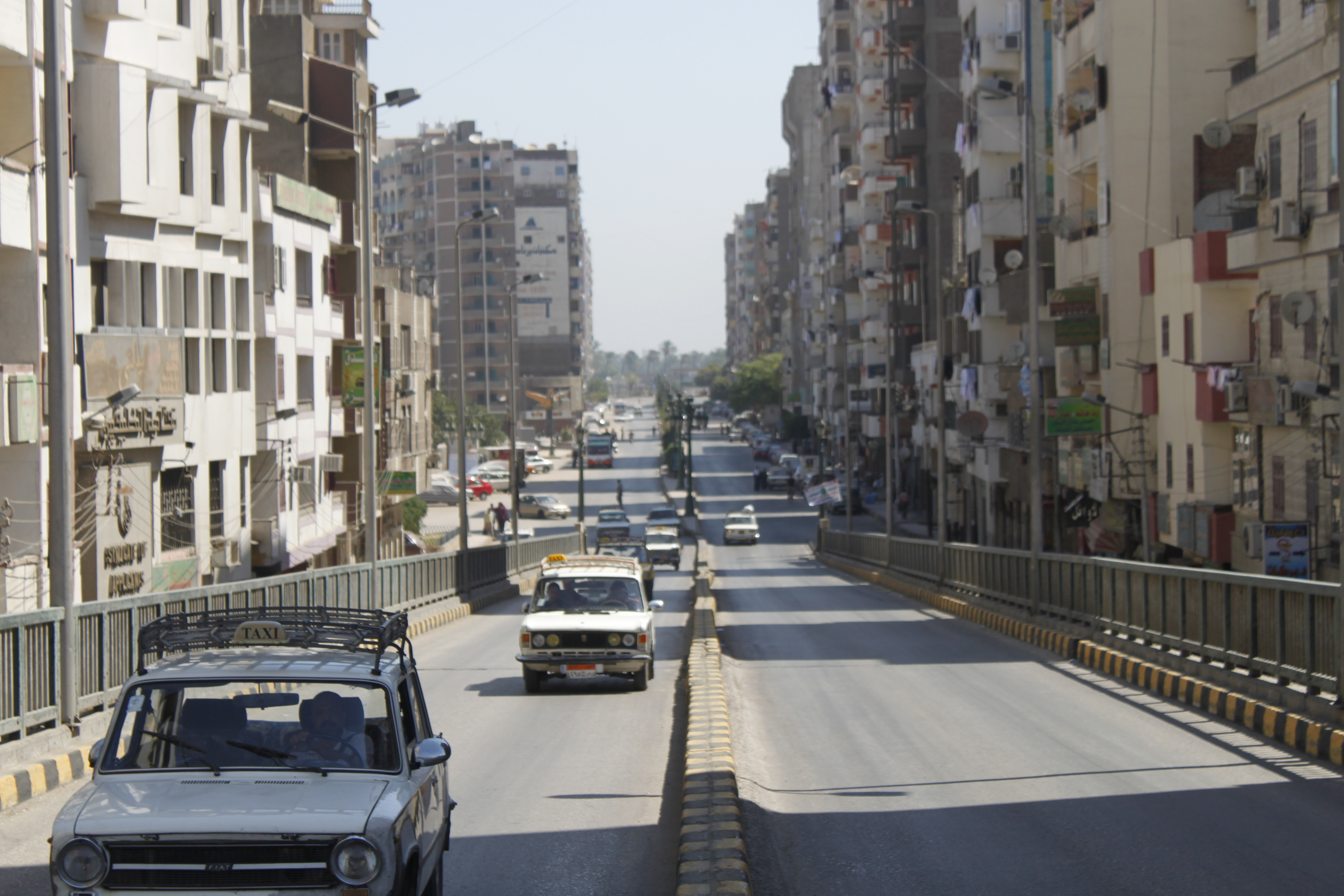 شارع الهلالي EL Helaly st. - 26July st.